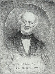 French printer, publisher and art-collector Ambroise Firmin-Didot (1790-1876).